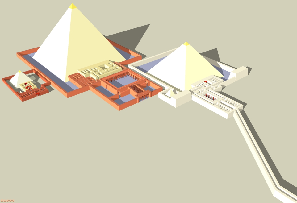 Restored view of pyramids of Khentkaus II (left), Neferirkare (middle) and Nyuserre Ini (right) at Abusir - 5th dynasty of Egypt